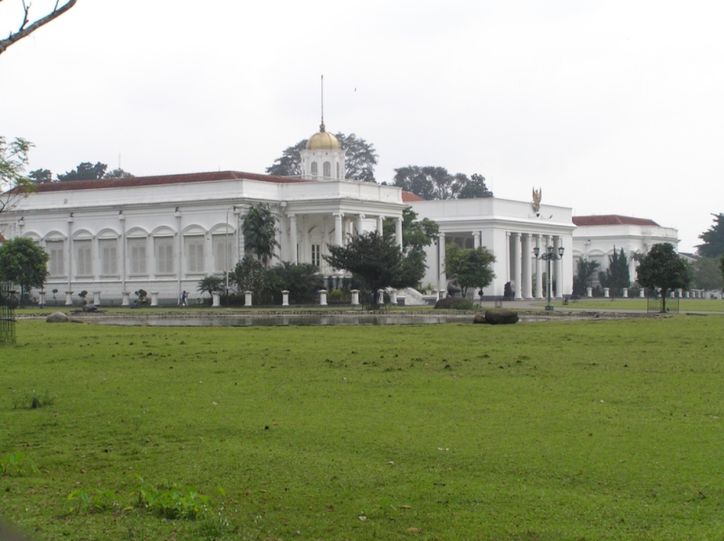 The Presidential Palace in Bogor